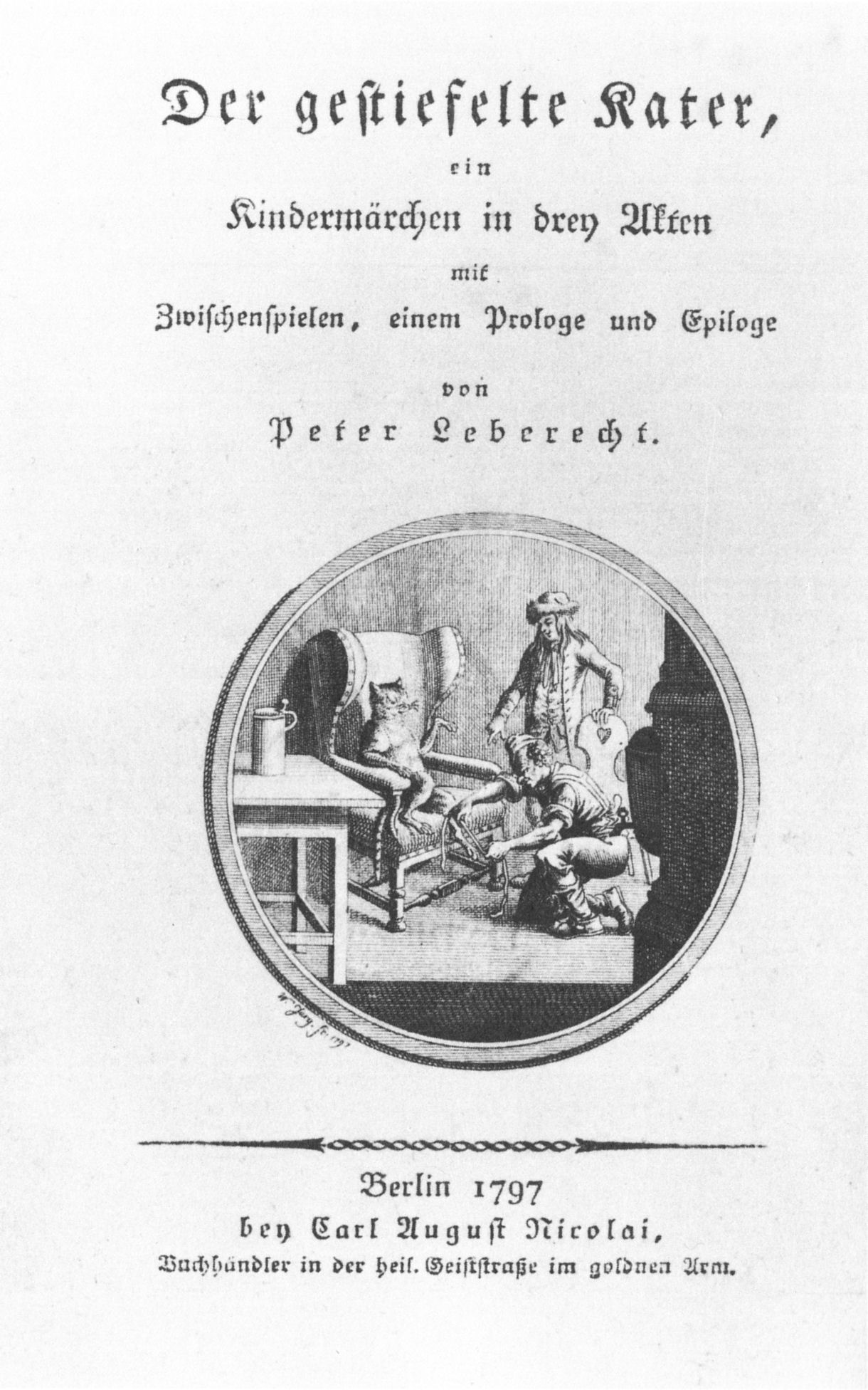 "Der gestiefelte Kater. Kindermärchen in drei Akten" (Berlin 1797) by Ludwig Tieck. Title page of first edition. "Peter Leberecht" is Tiecks pseudonym.